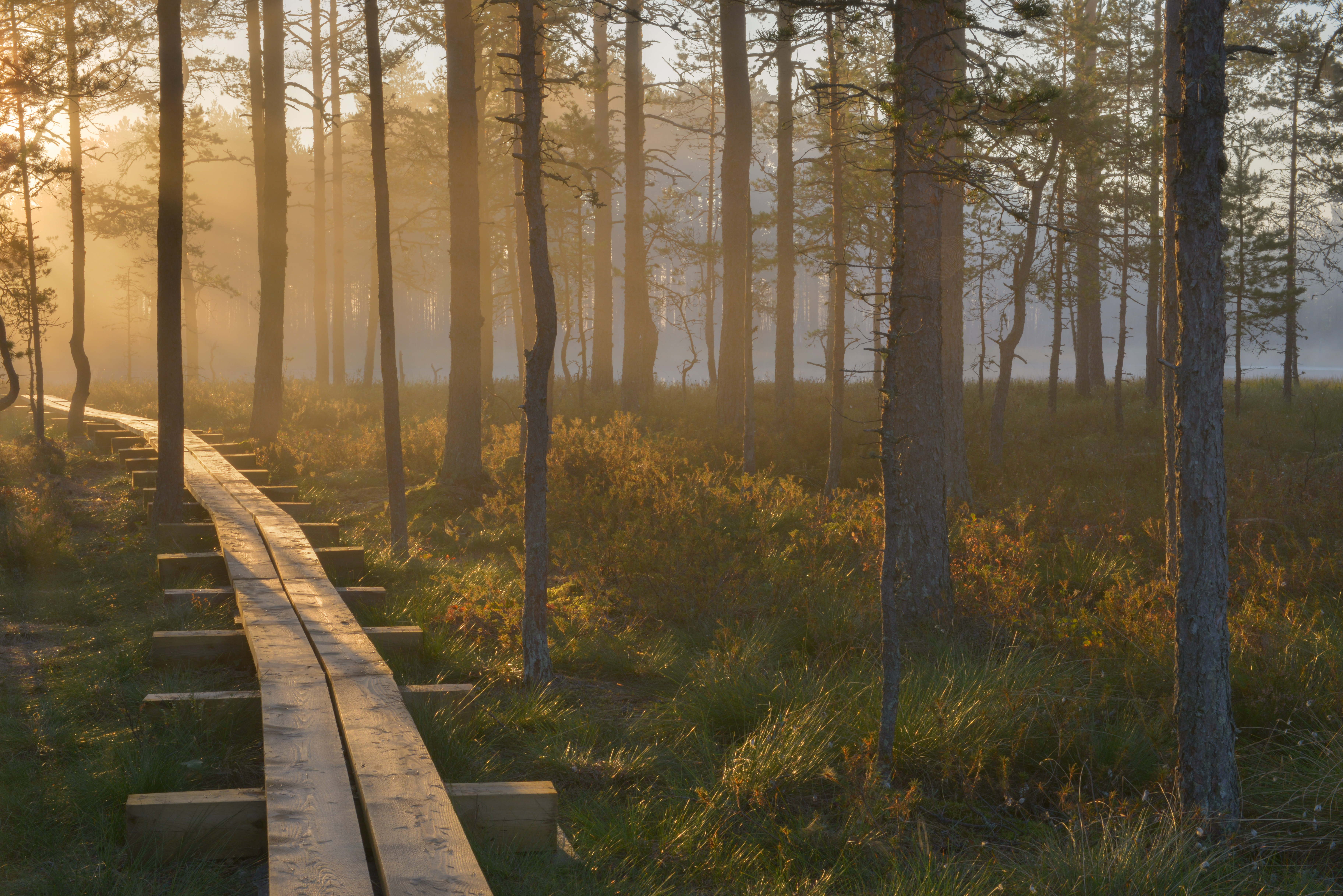 Sunrise in Viru bog, Estonia.